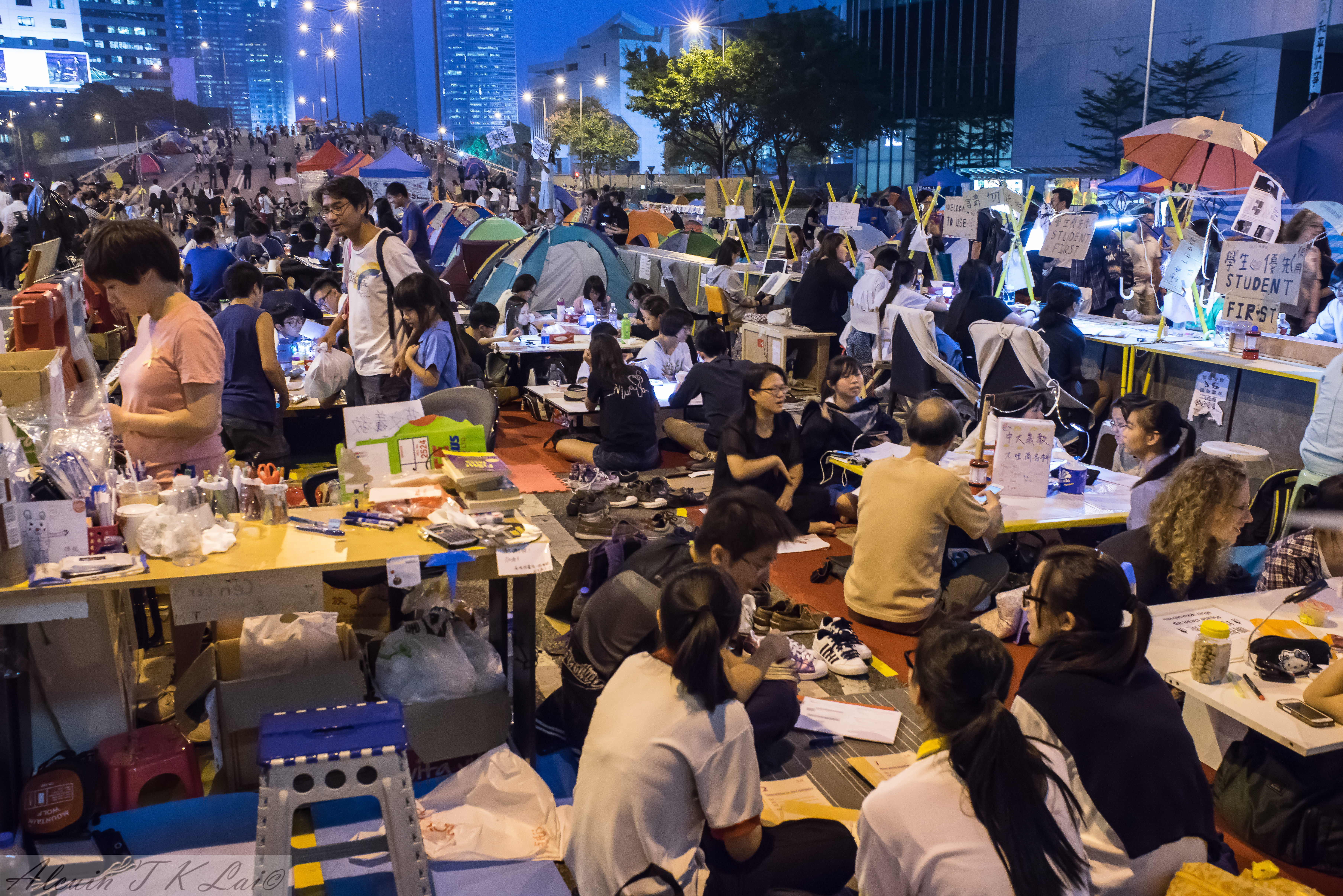 Student Study Area in Admiralty